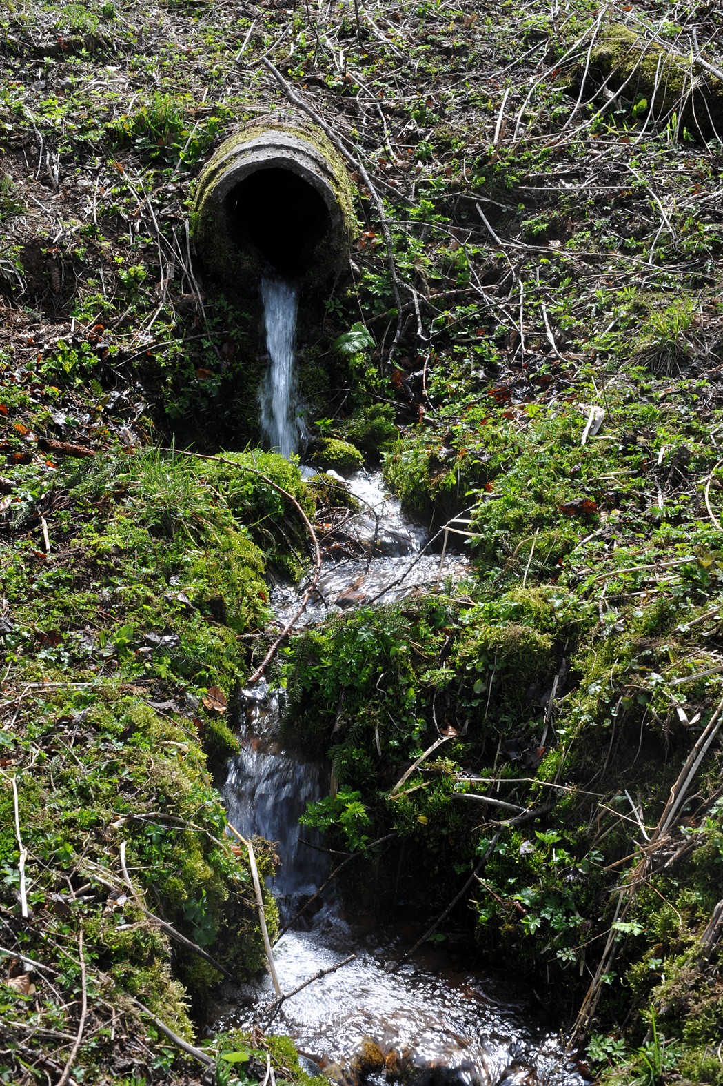 Source of the Meurthe river at the Route des Crêtes near the Col de la Schlucht; Vosges, France.